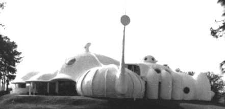 A photo of the Xanadu House that was located in Kissimmee, Florida, showing the exterior of the house.